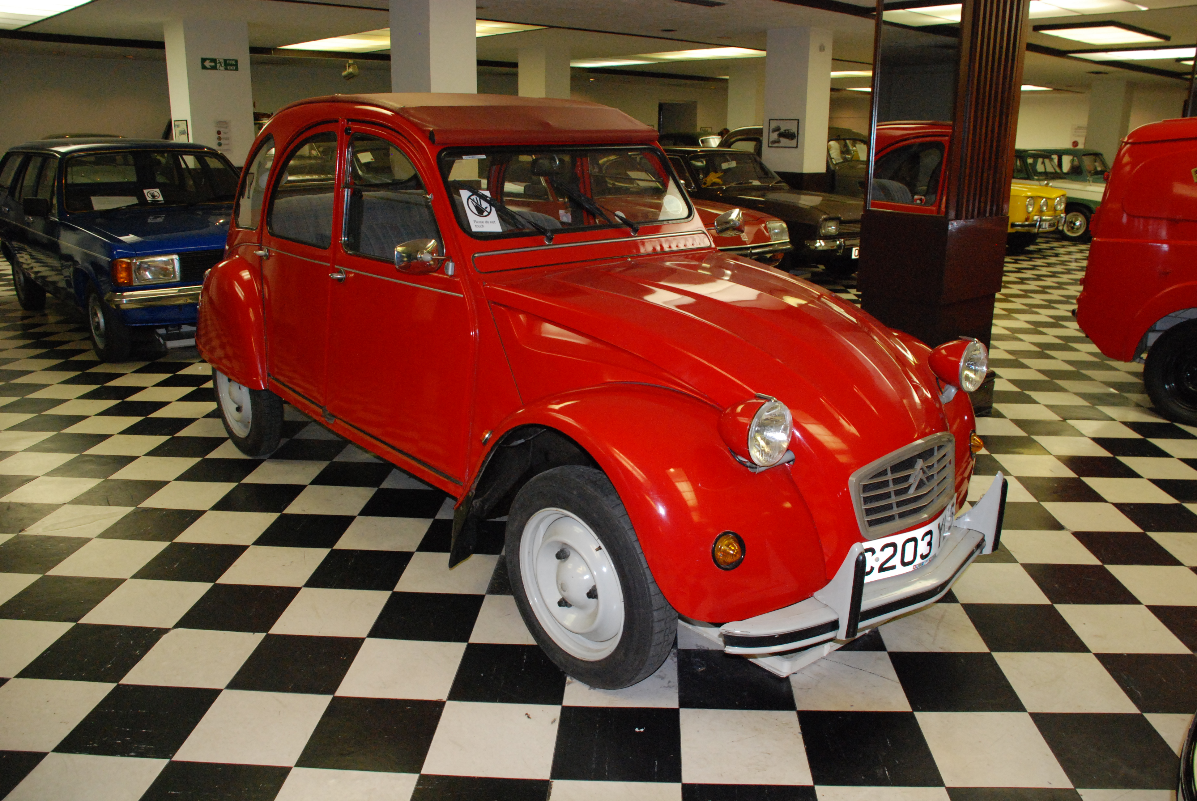 An under-rated Glasgow gem! We love it. Every visit yields new insight into the history of Scottish automotive engineering. And its free! Go see it if you can.